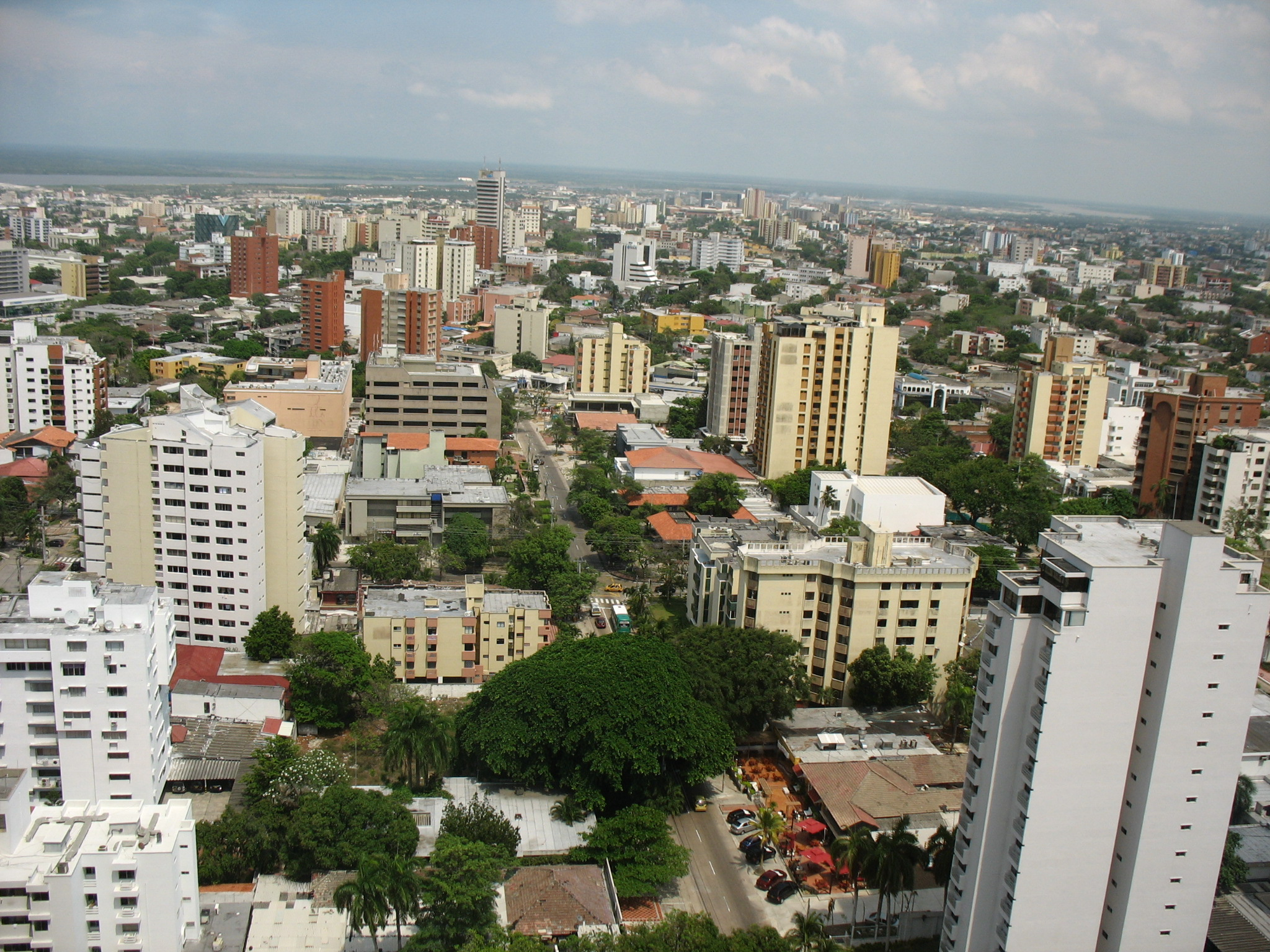 Barranquilla's general cityscape